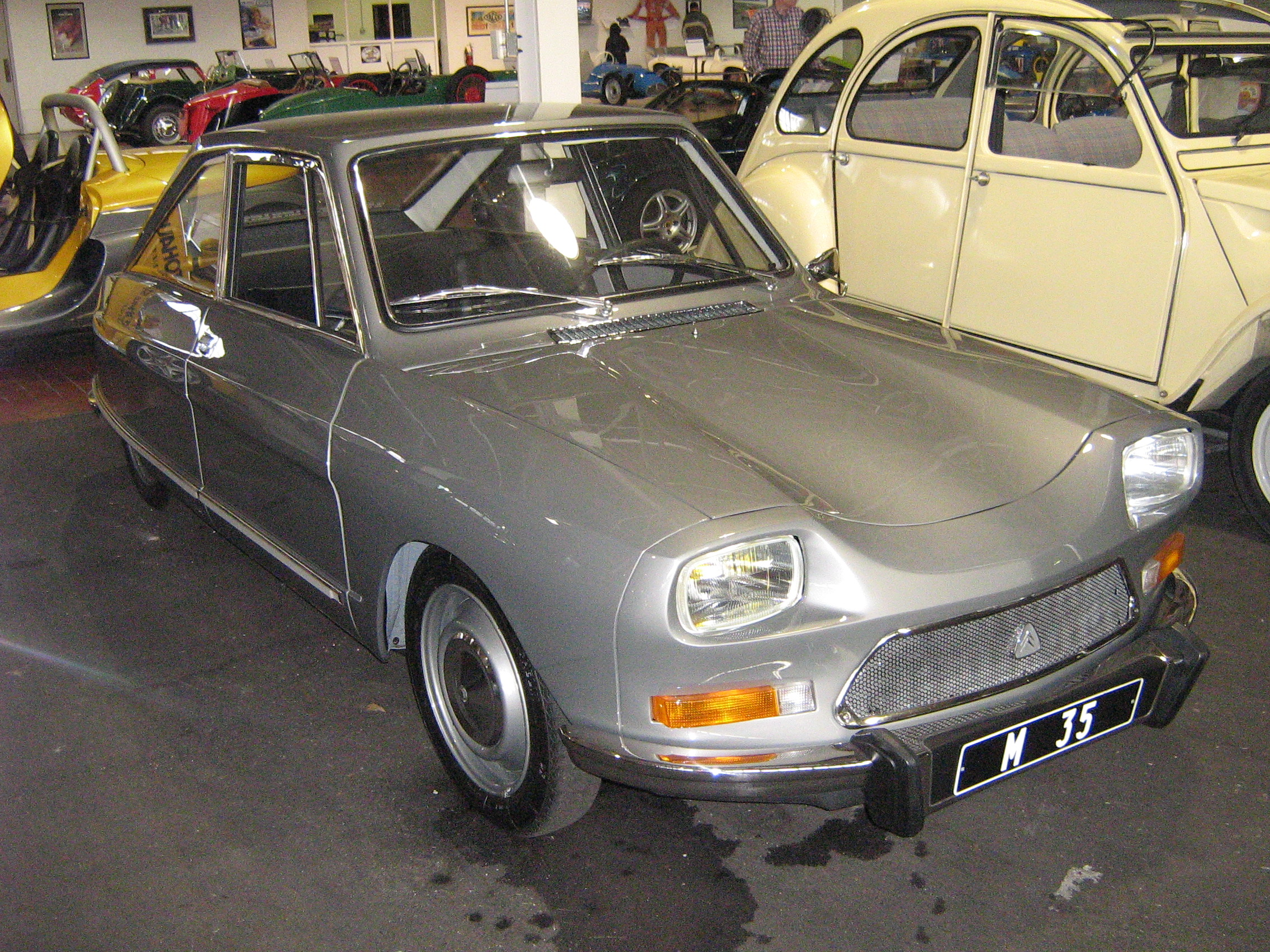 Rotary powered 1970 Citroen M35